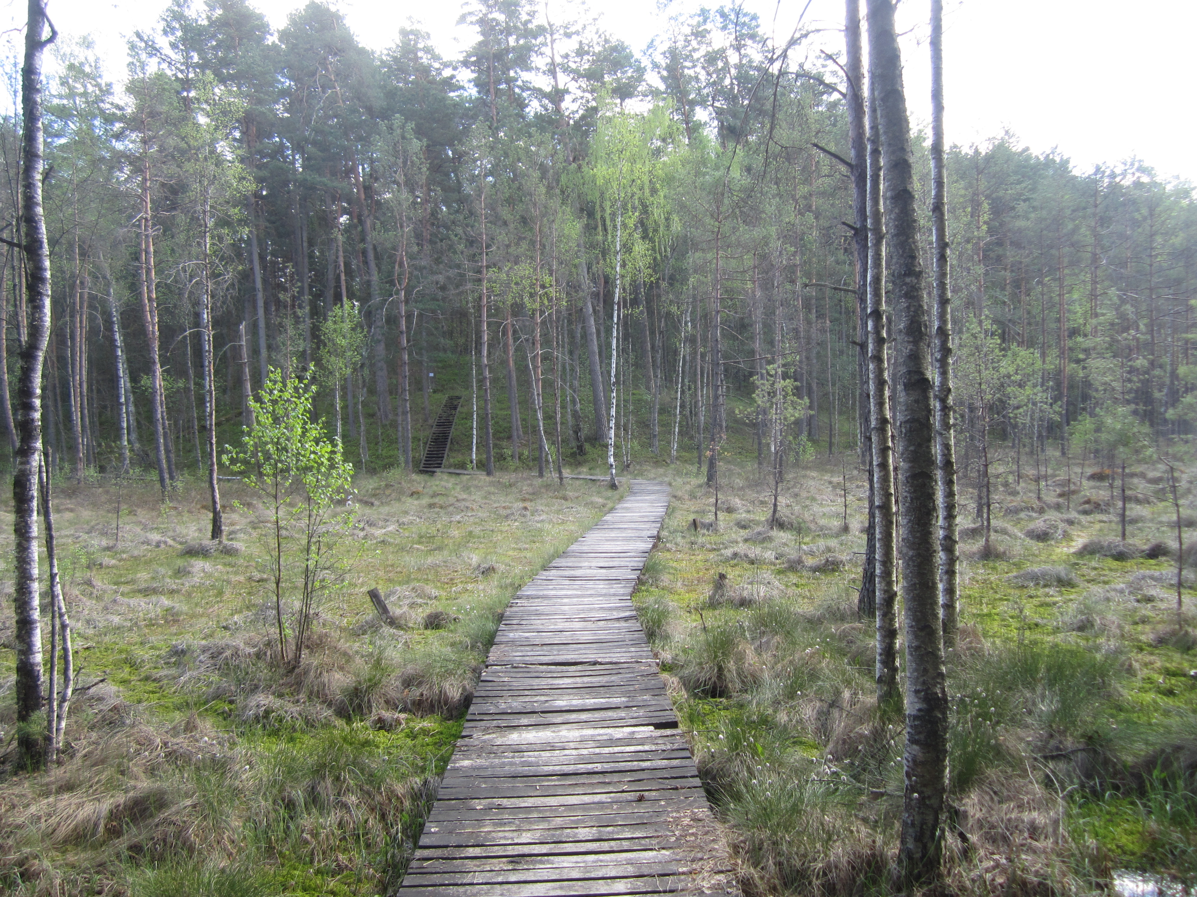 Gurakalnė bog in Utena County District, Lithuania